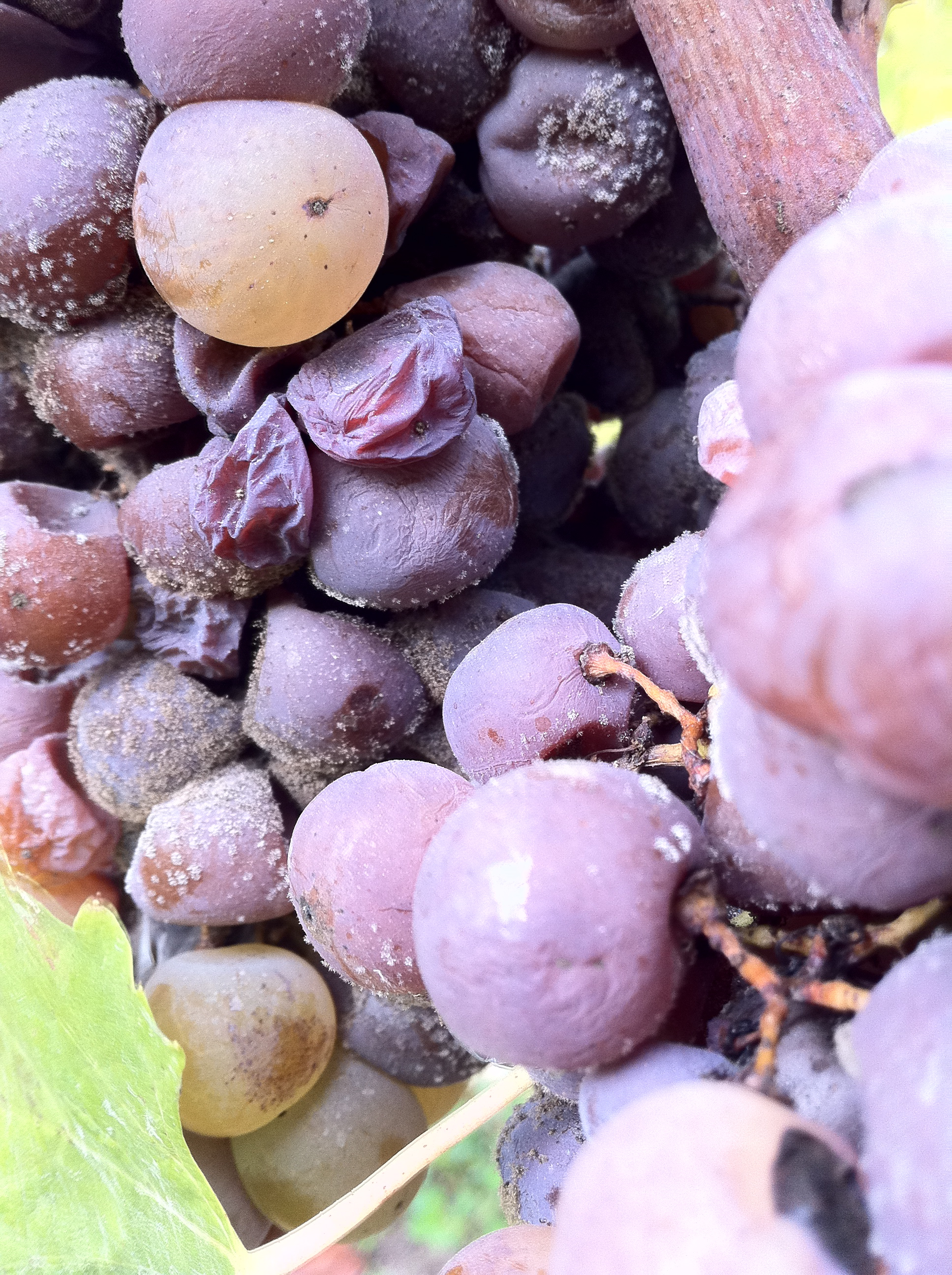 Grapes showing signs of being infected with the "noble rot" of Botrytis cinera. These are white wine grapes but the botrytis infection causes a color change.